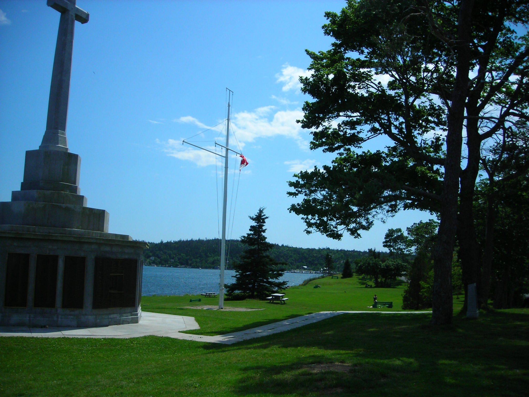 This is a photo of the south side of Point Pleasant Park in Halifax, Nova Scotia, Canada. It was taken in 2009. On the left one can see a memorial site for sailors and soldiers that died during World War II.